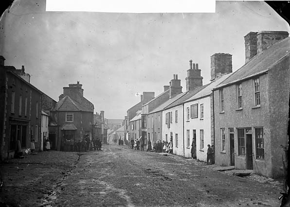 1 negative : glass, wet collodion, b&w ; 12 x 16.5 cm.